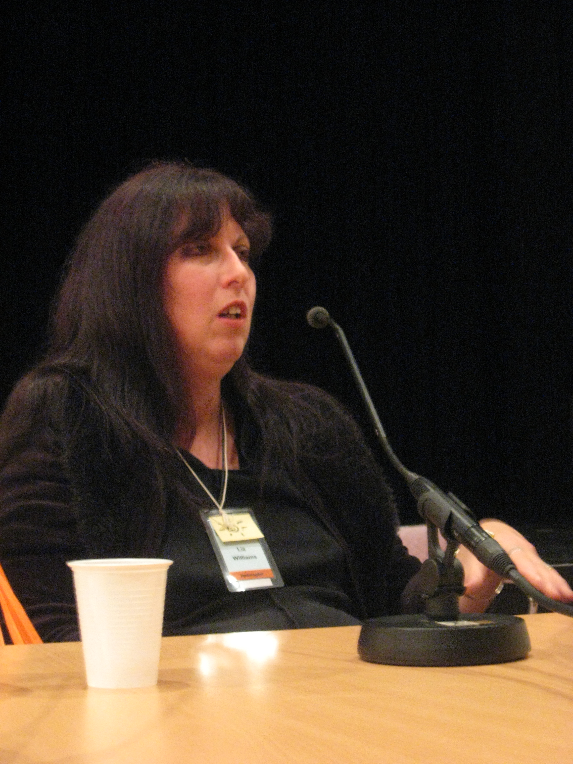 Liz Williams at Imagicon 2: Swecon 2009